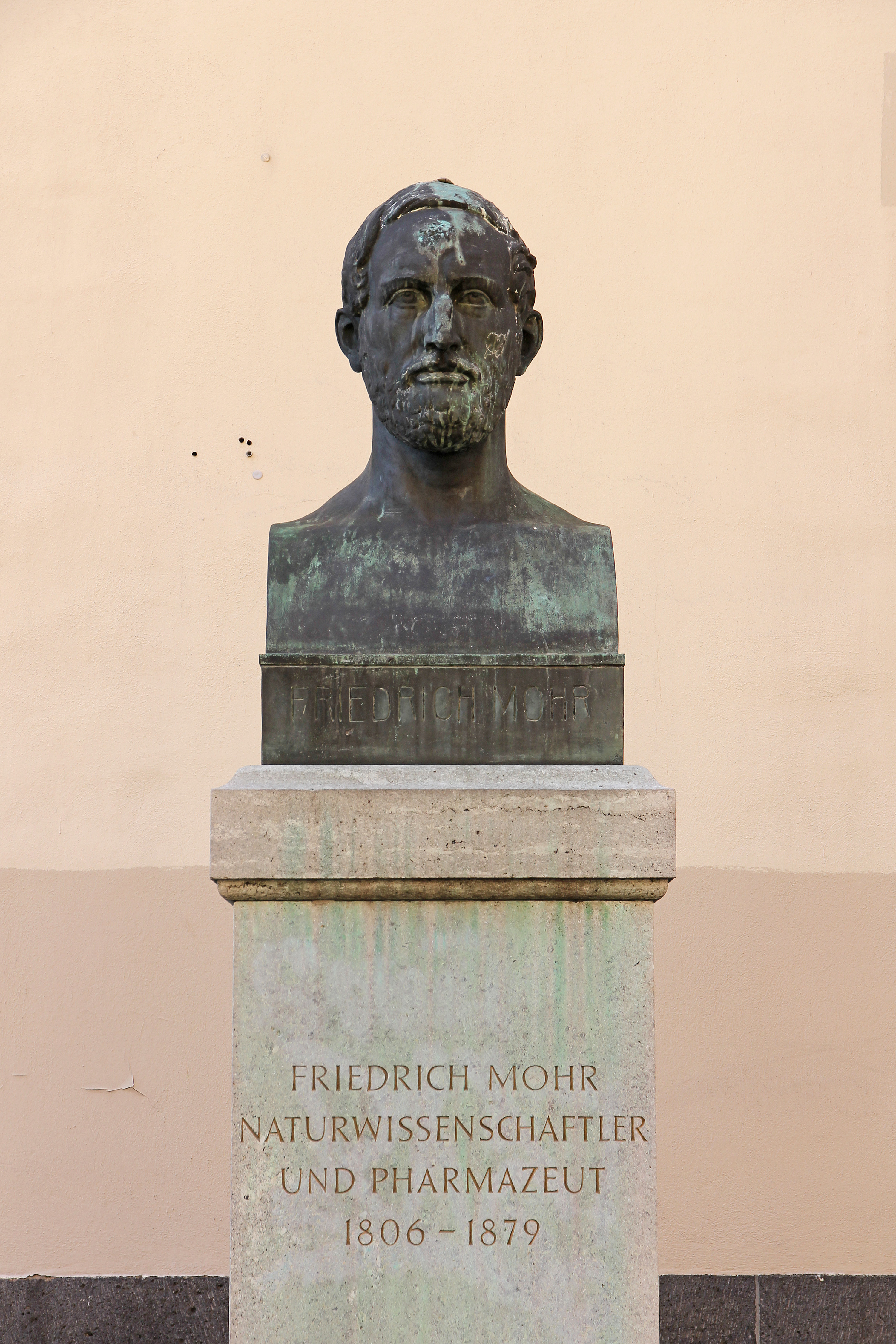 Friedrich-Mohr-Memorial in Koblenz